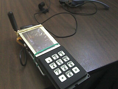 TuxPhone in 2006.